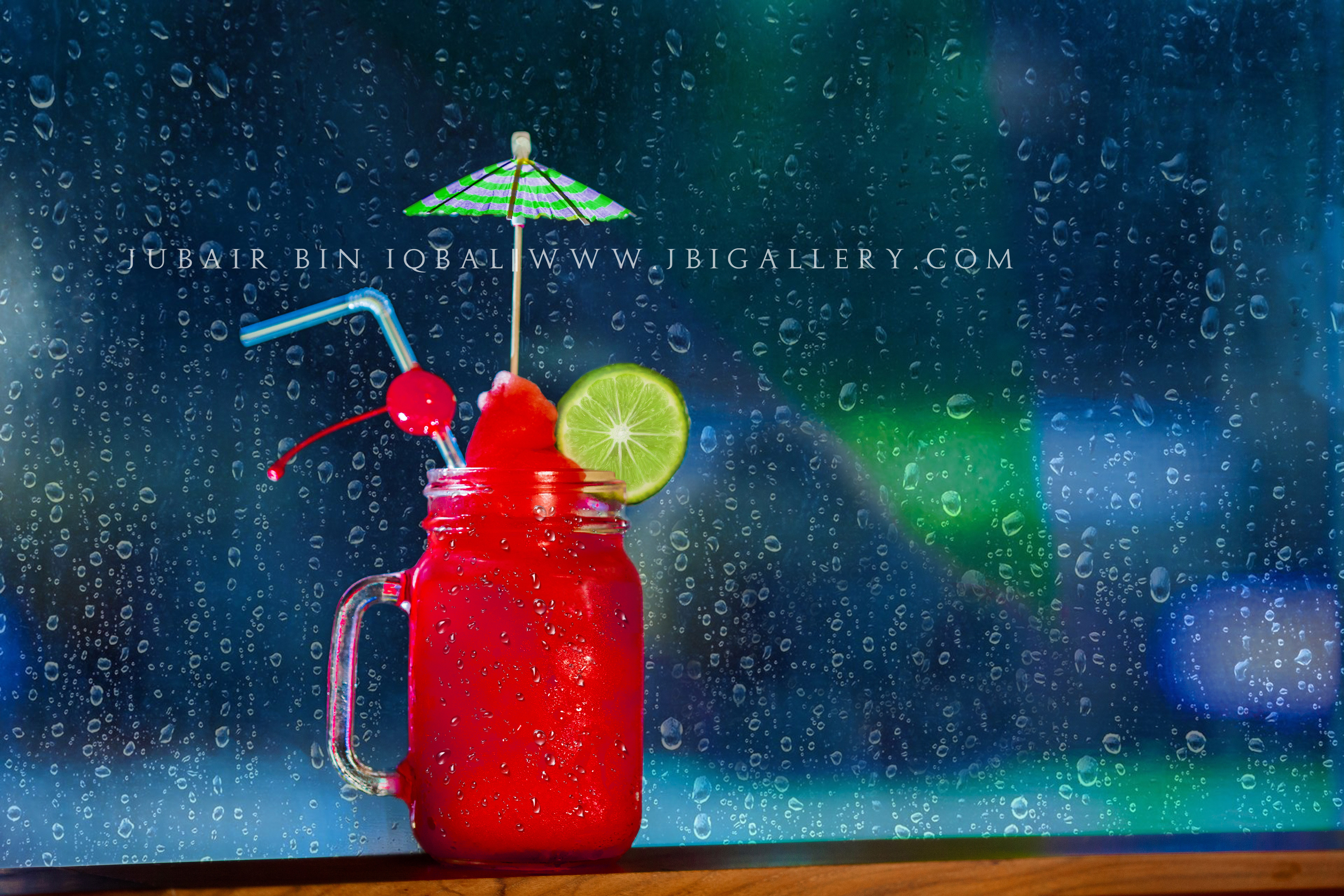 Red Strawberry Ice Cream with lime flavour